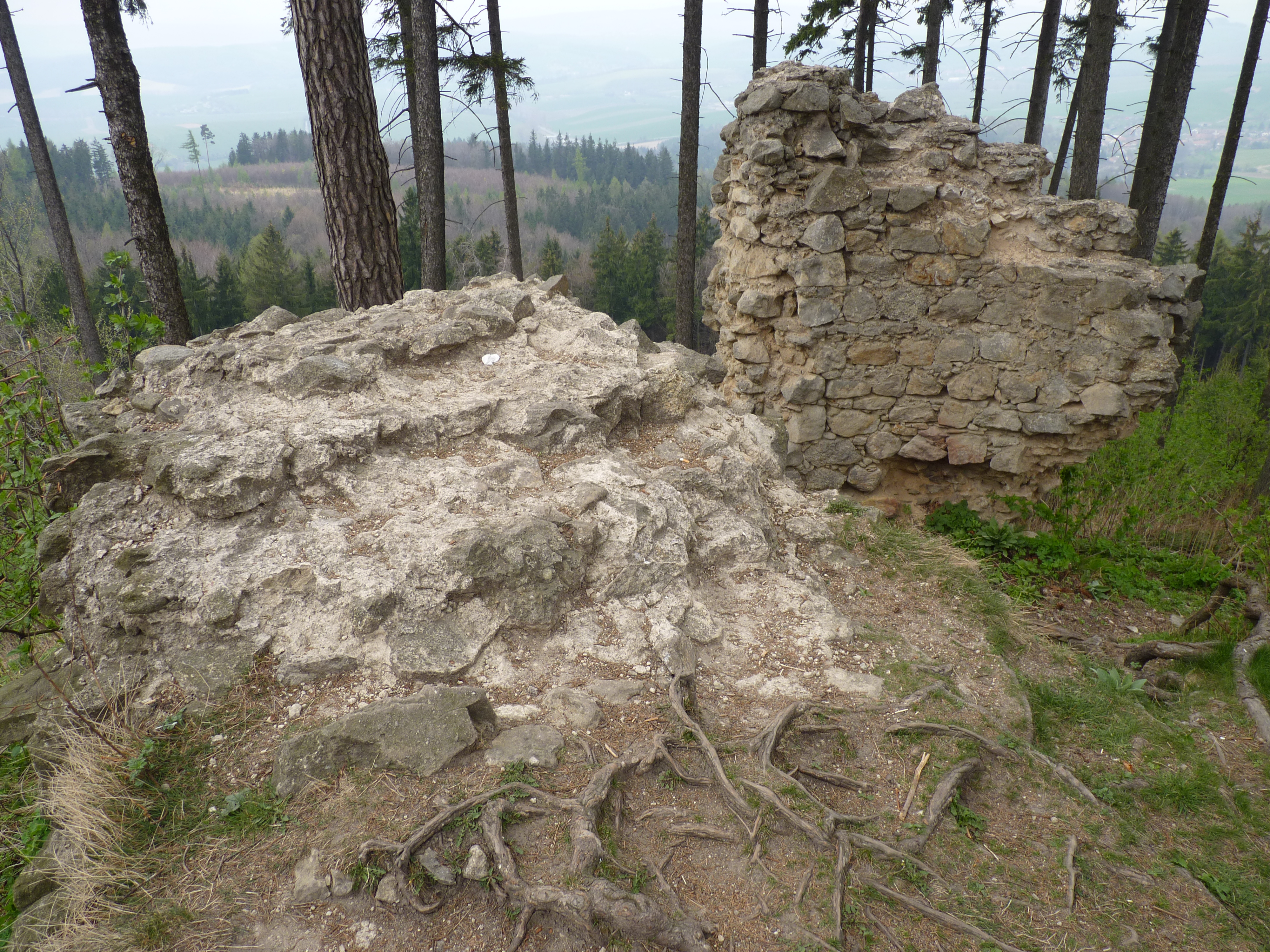 Ruin of Castle Strilky. Chriby, South Moravian Region, Czech Republic Project: Chráněná území